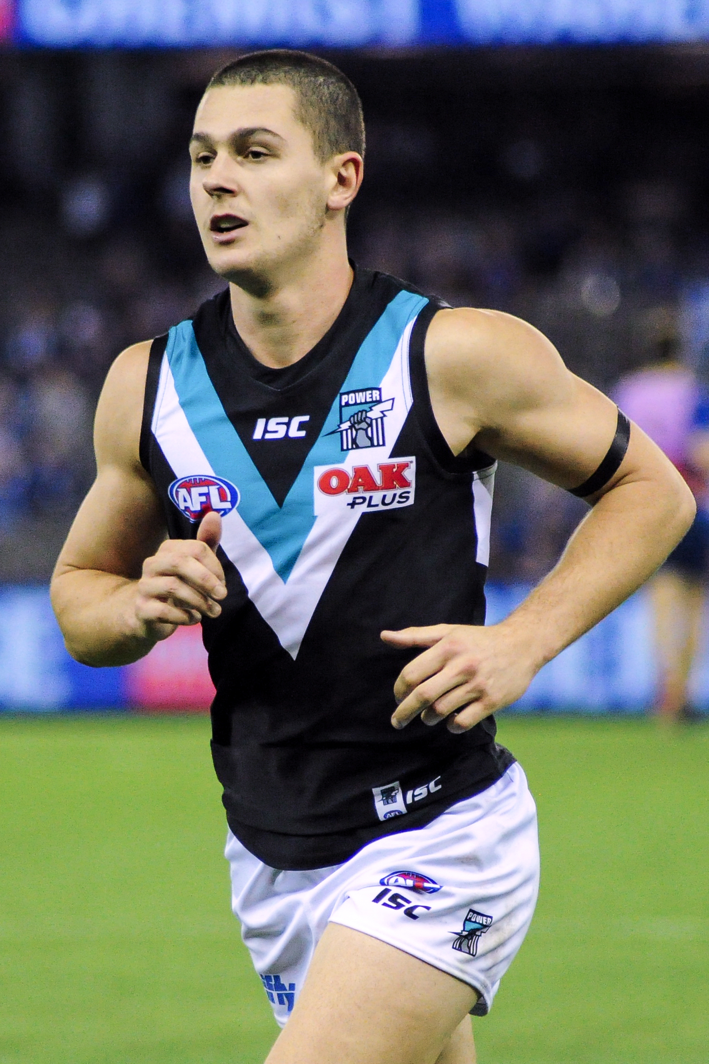 Darcy Byrne-Jones during the AFL round six match between North Melbourne and Port Adelaide on Saturday, 28 April 2018 at Etihad Stadium in Melbourne, Victoria.